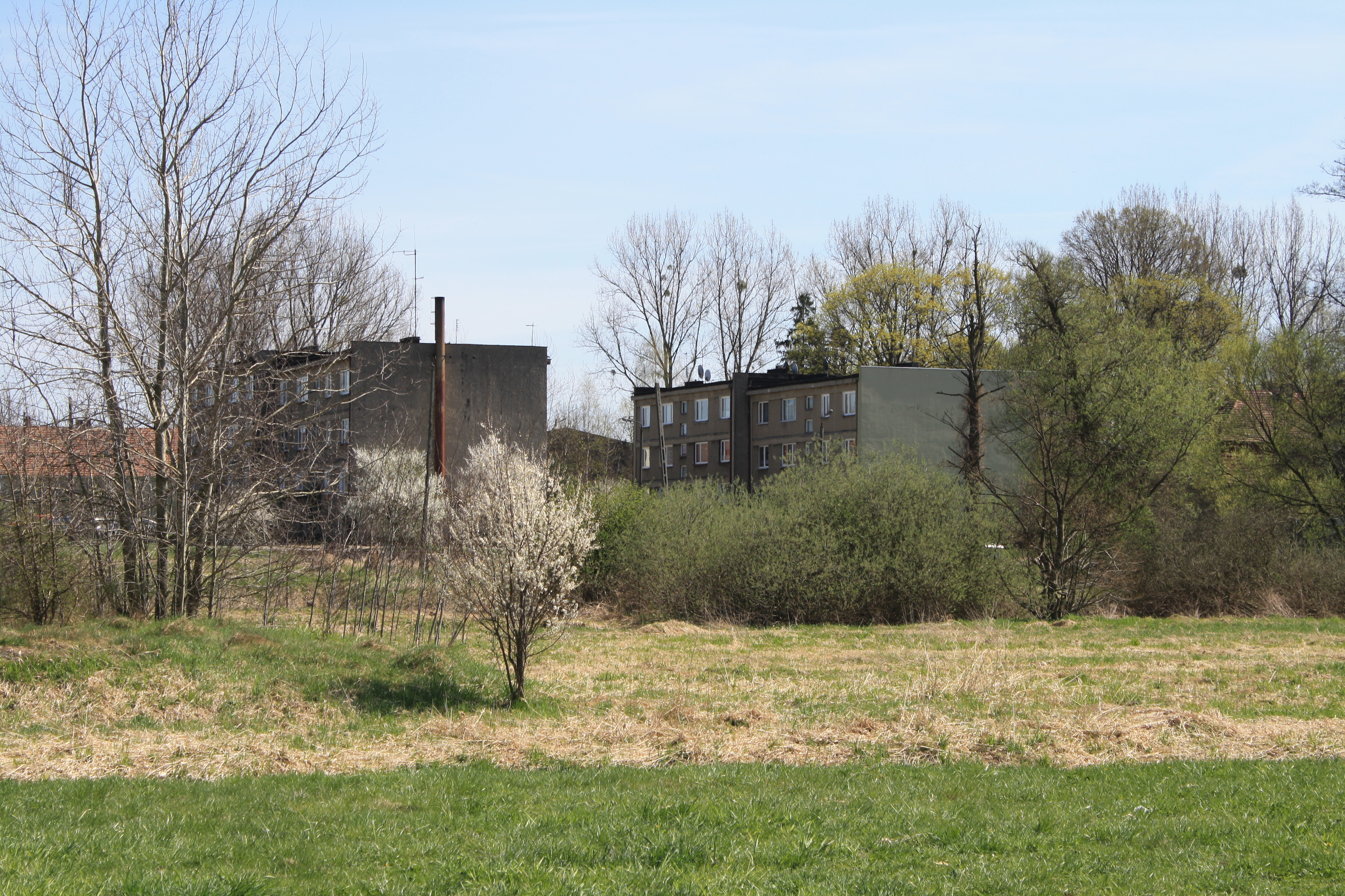 "Nowe bloki" w Panoszowie